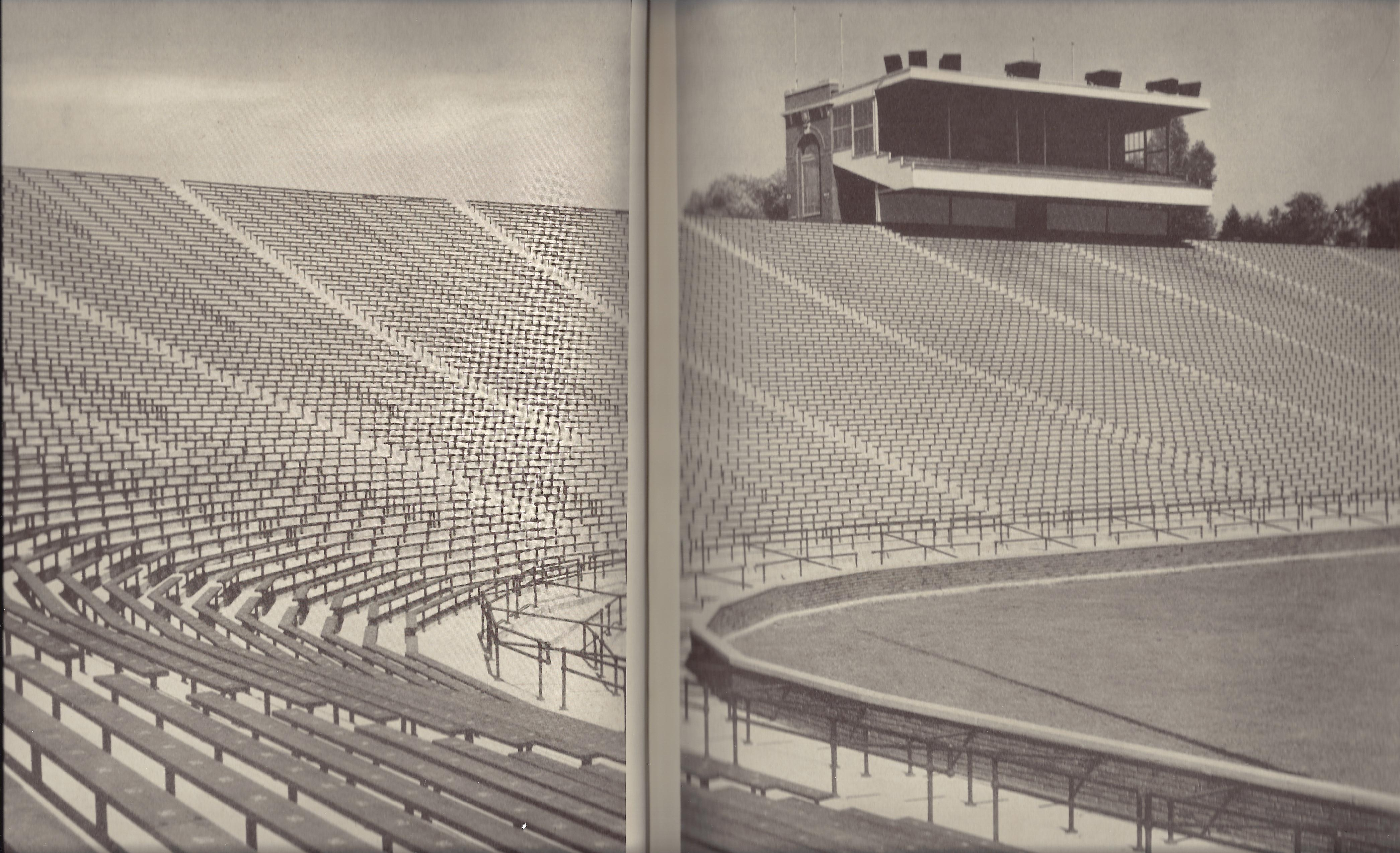 Photograph of Michigan Stadium, c. 1933 This work is in the public domain because it was published in the United States between 1923 and 1963 and although there may or may not have been a copyright notice, the copyright was not renewed. Unless its author has been dead for the required period, it is copyrighted in the countries or areas that do not apply the rule of the shorter term for US works, such as Canada (50 pma), Mainland China (50 pma, not Hong Kong or Macao), Germany (70 pma), Mexico (100 pma), Switzerland (70 pma), and other countries with individual treaties. See Commons:Hirtle chart for further explanation. This work is in the public domain in the United States because it was published in the United States between 1923 and 1977 without a copyright notice. See Commons:Hirtle chart for further explanation. Note that it may still be copyrighted in jurisdictions that do not apply the rule of the shorter term for US works (depending on the date of the author's death), such as Canada (50 p.m.a.), Mainland China (50 p.m.a., not Hong Kong or Macao), Germany (70 p.m.a.), Mexico (100 p.m.a.), Switzerland (70 p.m.a.), and other countries with individual treaties.